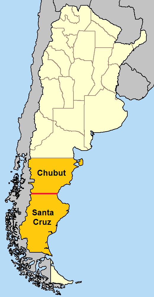 Map showing the location of the 46th parallel south, defining the border between Argentinian provinces